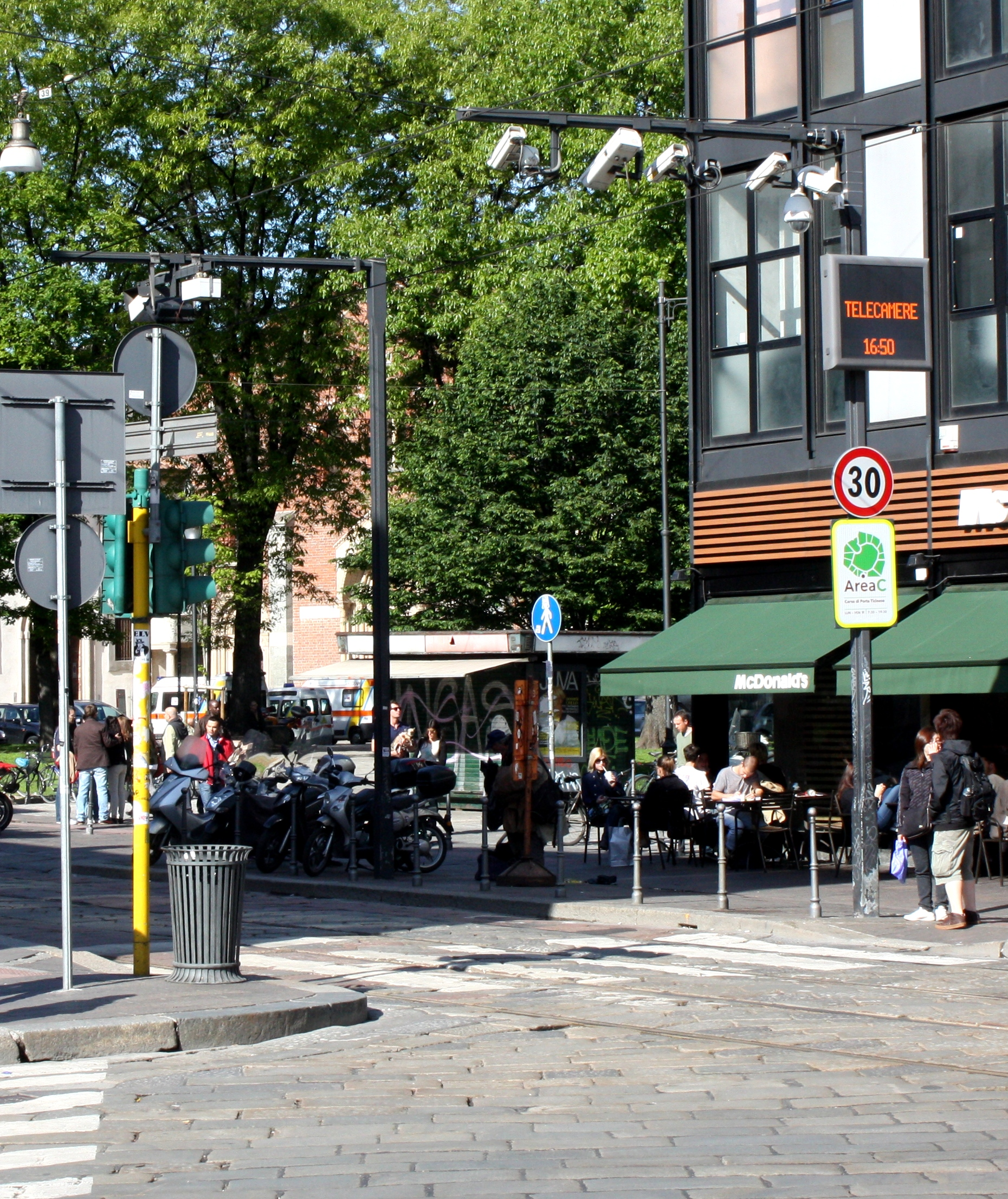 Area C congestion charge in Milan, Italy: Porta Ticinese gate in Piazza 24 Maggio